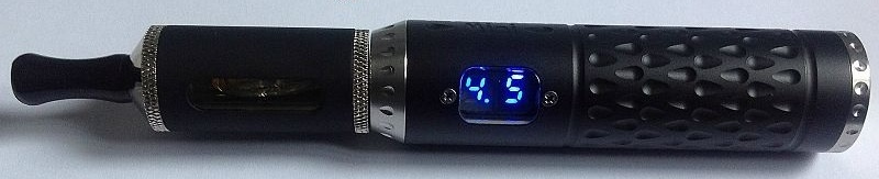 Ecig Provari+STV Vivinova.